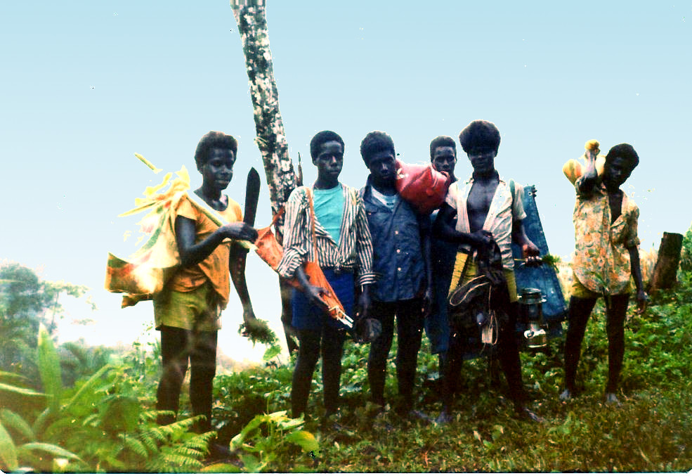 Buin and Siwai boys visiting Lake Loloru and feeling discomfort: while souls of the deceased are elsewhere by Christian doctrine, by traditional belief they are there.